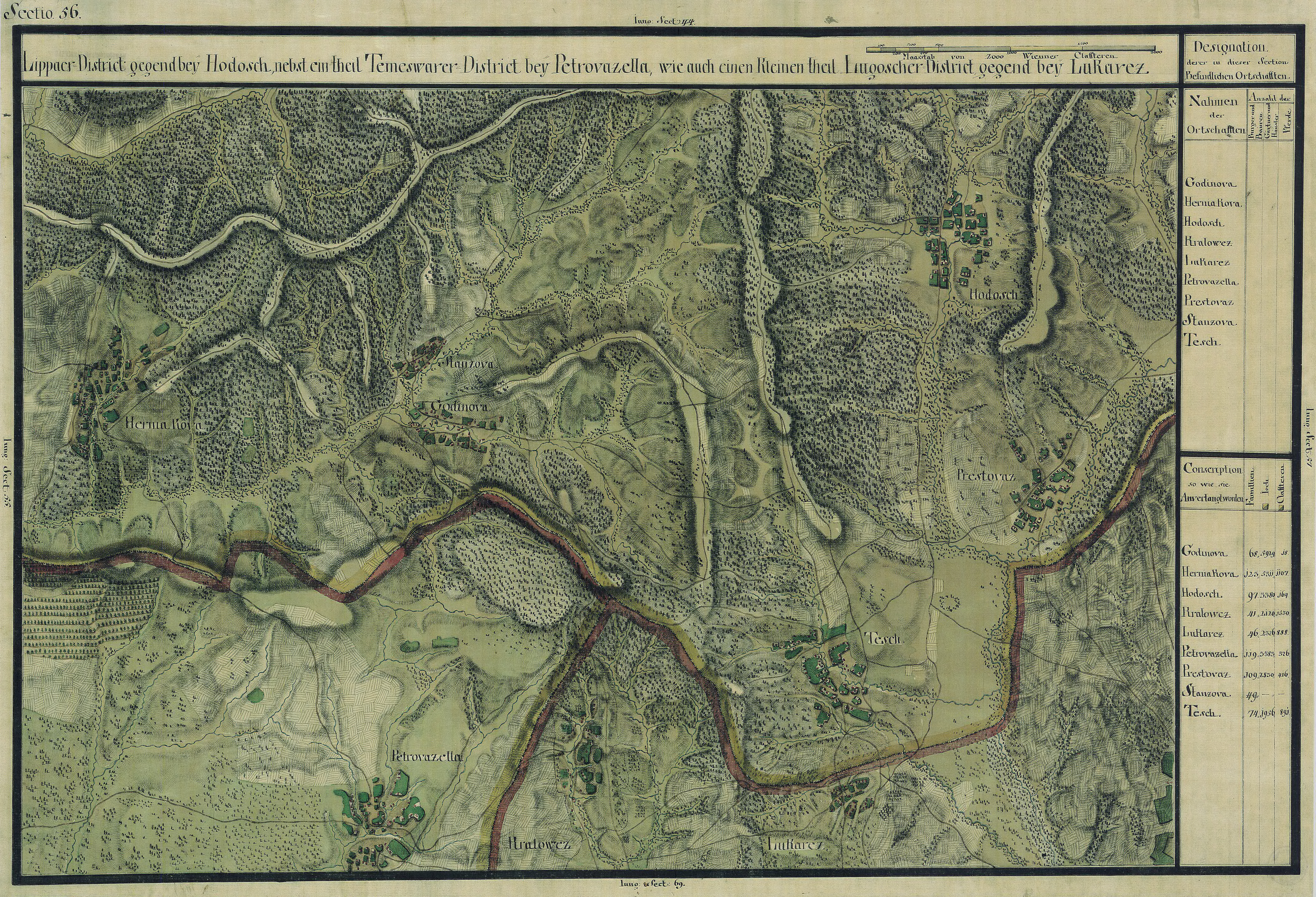 The Banat region in the cadastral maps: Josephinische Landesaufnahme, 1769-72. Josephinische Landaufnahme pg056